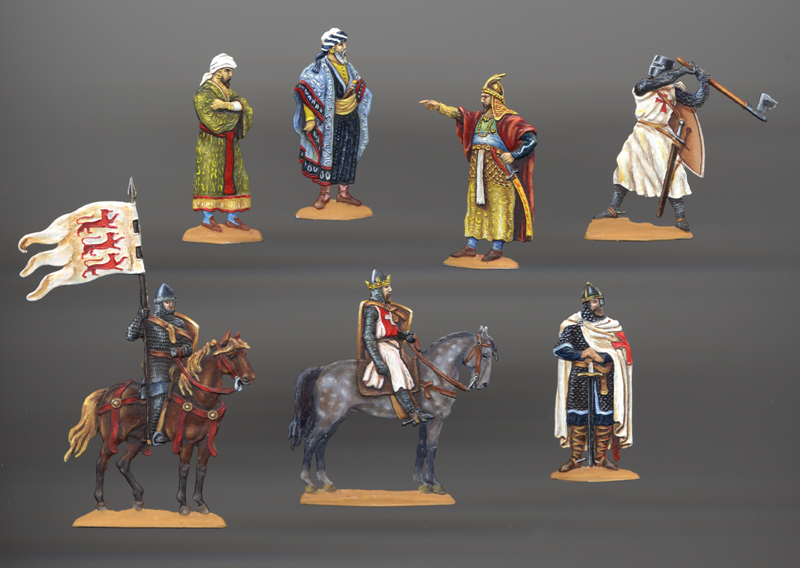 30mm flat tin figures, Crusade wars. Standar bearer of the English King; Richard I the Lionheart 1157-1199, Gottfried of Bouillon 1060-1100; sarascen emirs; Knight of the order of the Saint John, drawing L. Madlener, engraving L. Frank, edition H. Müller, except for standar bearer which is edition A. Retter, painting Louis Liljedahl